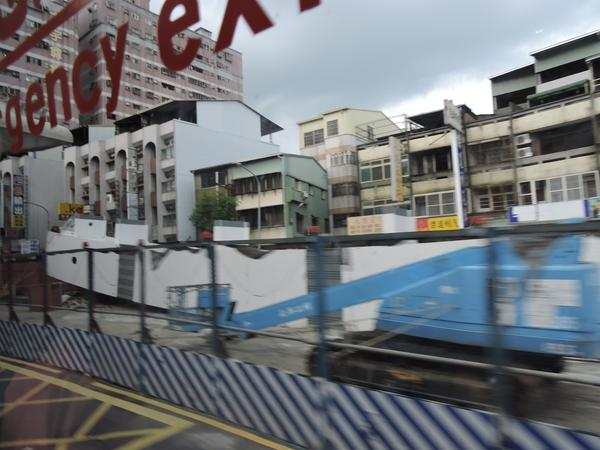 The steel girder left in the accident of Taichung MRT in 2015.